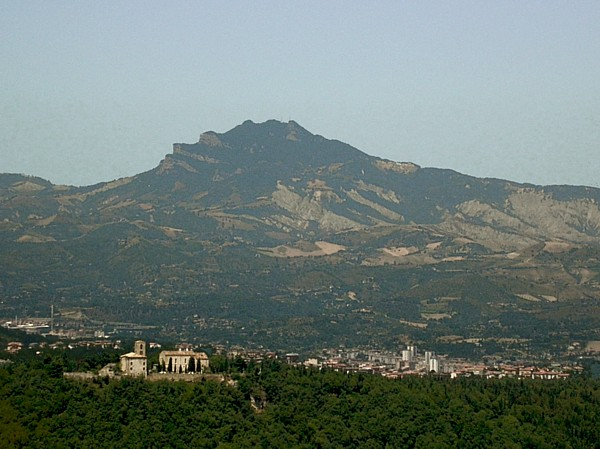 Monte Ascensione picture taken by user Idéfix July 2005